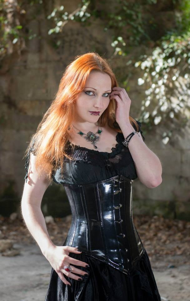 Goth Model